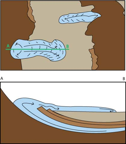 Schematic of a extrusive salt formation